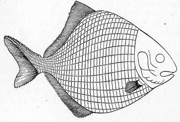 Fig. 137.—Platysomus gibbosus, a "heterocercal" Ganoid, from the Middle Permian of Russia. Sharks. Not only are the Ganoids still the predominant group of Fishes, but all the known forms possess the unsymmetrical ("heterocercal") tail which is so characteristic of the Palæozoic Ganoids. Most of the remains of the Permian Fishes have been obtained from the "Marl-slate" of Durham and the corresponding "Kupfer-schiefer" of Germany, on the horizon of the Middle Permian; and the principal genera of the Ganoids are Palœoniscus and Platysomus (fig. 137).